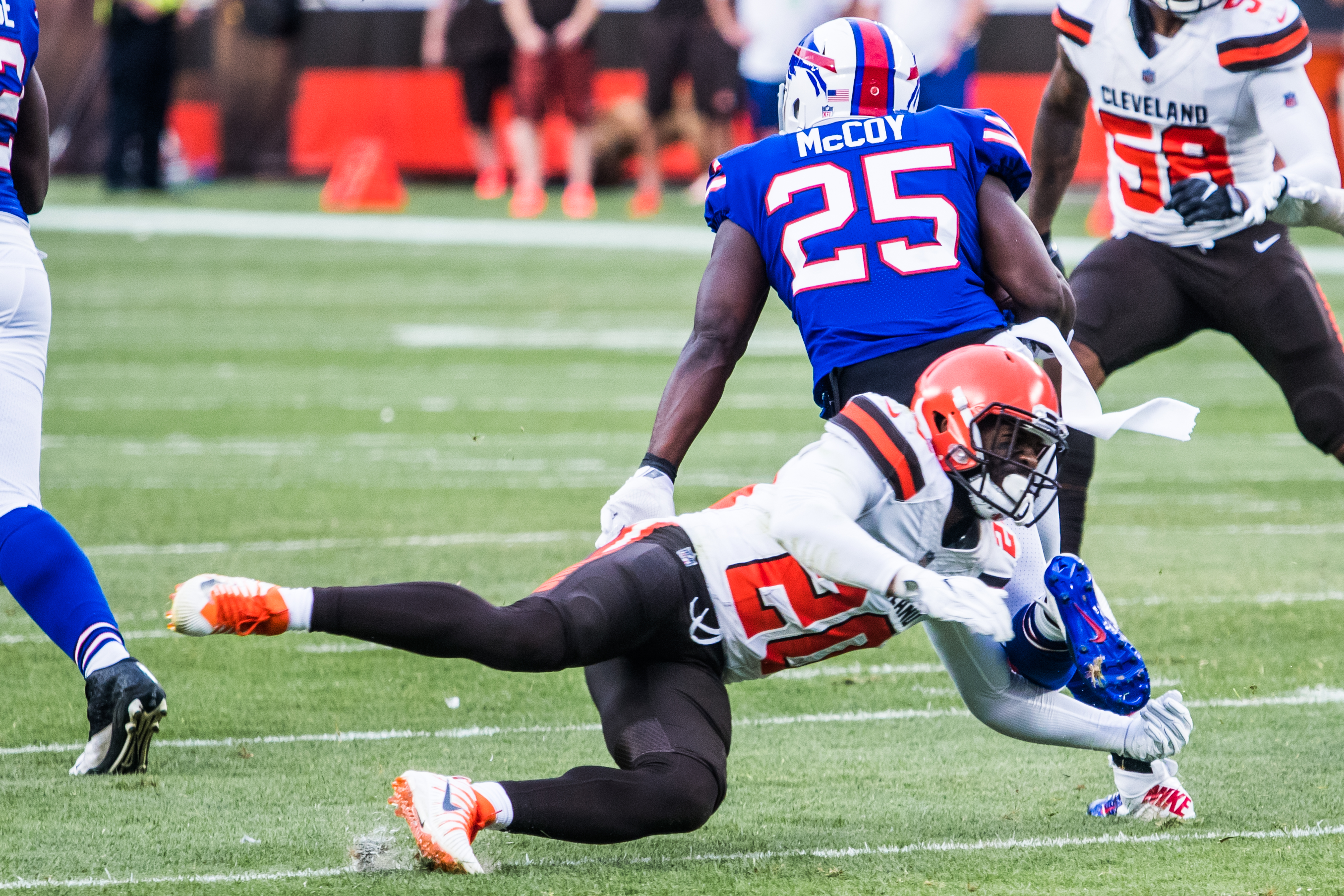 LeSean McCoy